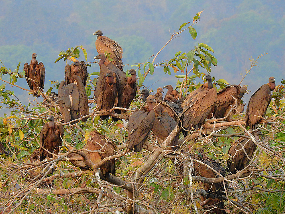 Photograph by Shantanu Kuveskar Location : Mangaon, Raigad, Maharashtra, Inda